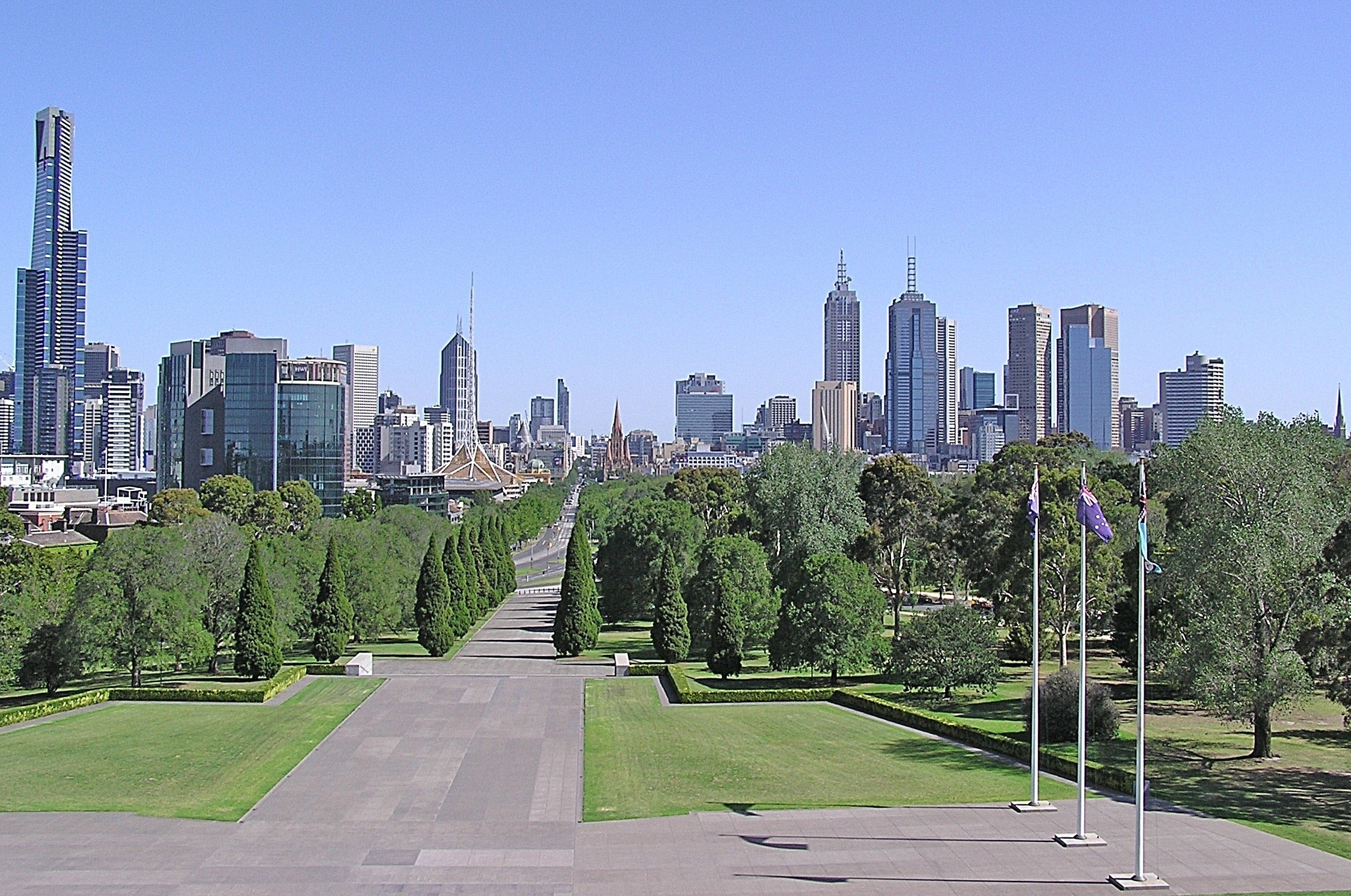 Melbourne CBD skyline viewed from top of the Shrine of Remembrance